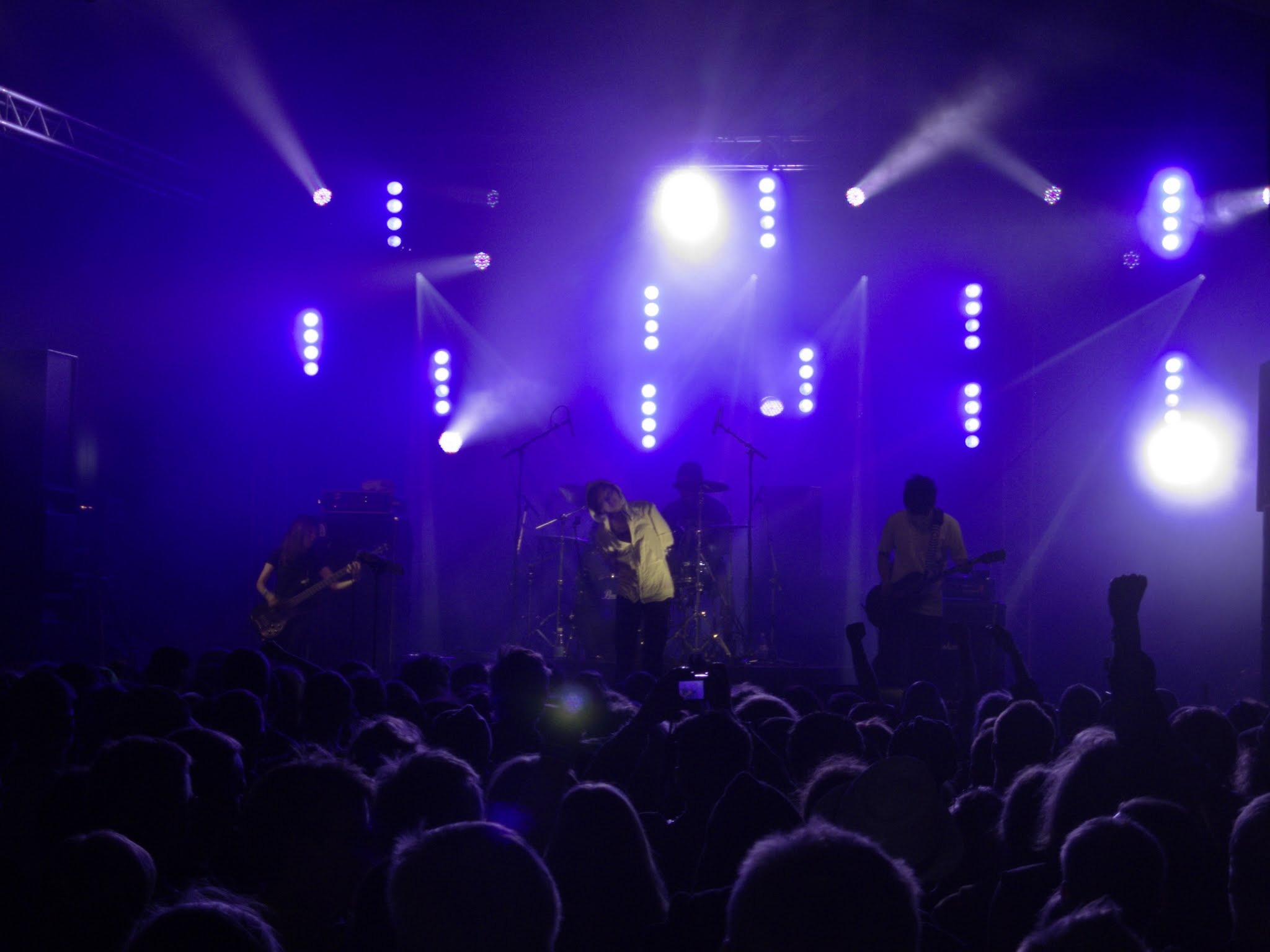 Melt-Banana at Ilosaarirock 2011.